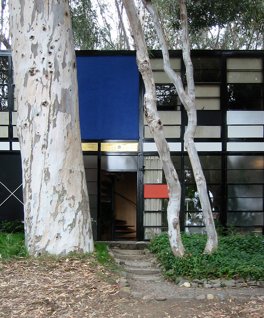 Main entry of the Eames House, Pacific Palisades, California. Photograph by John Morse, June 2003. Taken with a Canon Powershot S-110 digital camera in natural light. Perspective corrected using Adobe Photoshop software.